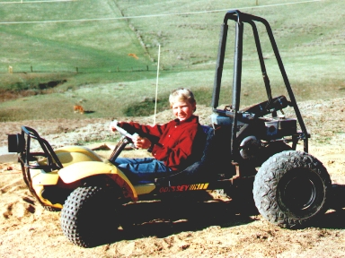 1979 Honda Odyssey FL250 ca. 2000. Note the engine has been replaced with a Polaris 440cc Snowmobile engine.